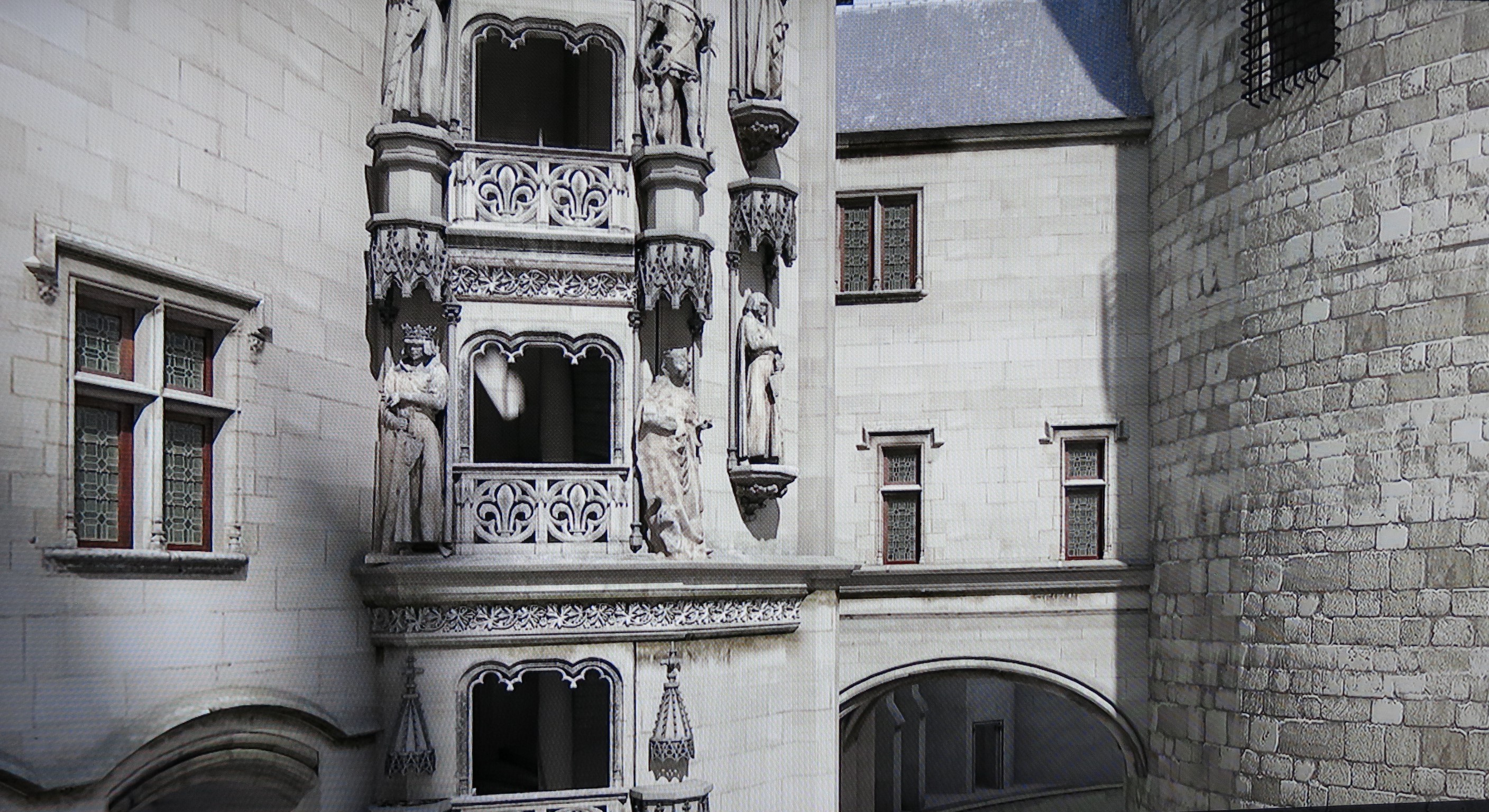 Grande vis du Louvre front view (above the entrance) on the 2nd floor. The statues are those of King Charles V and his wife.